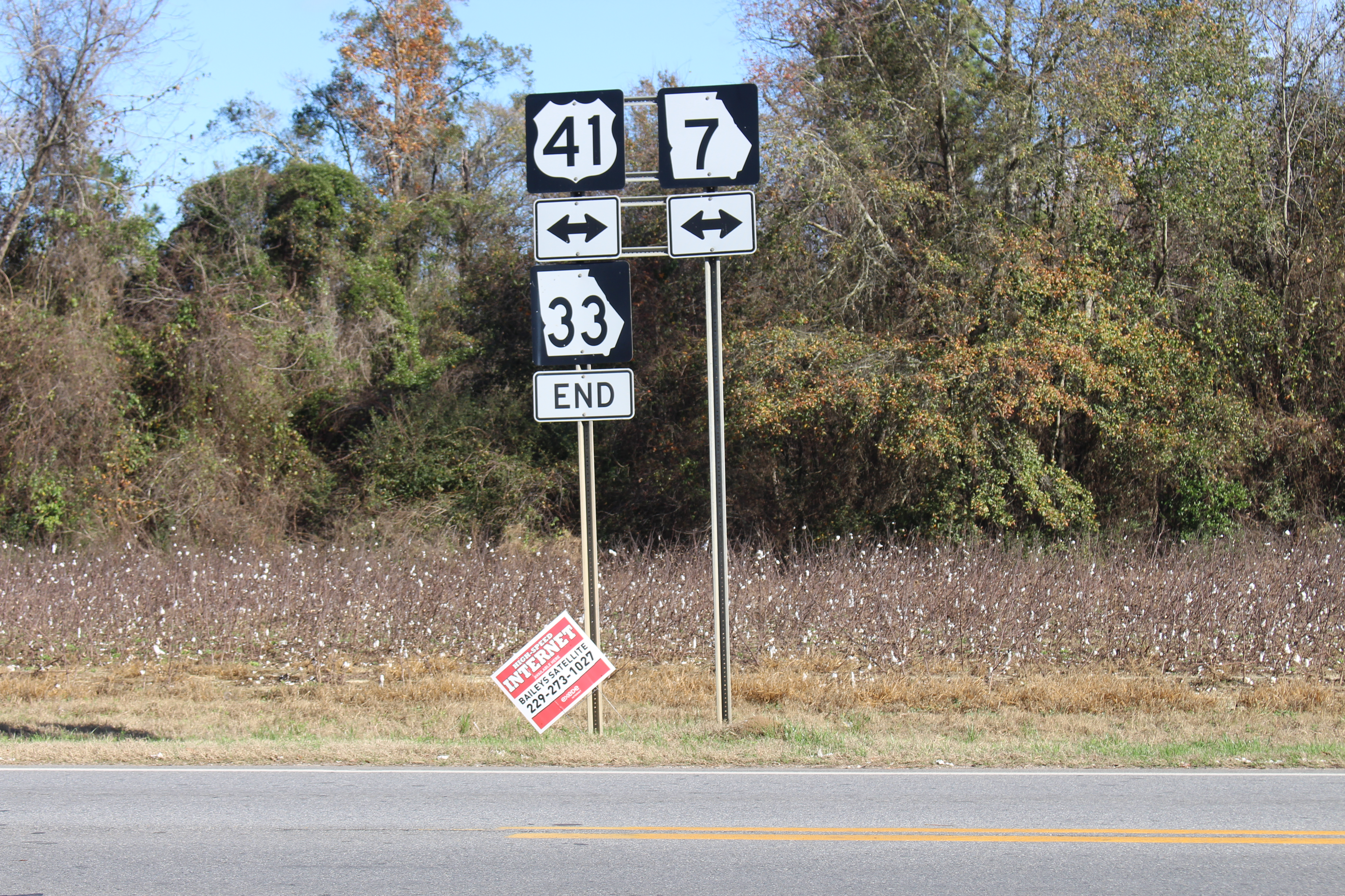 GA33 NB end, Crisp County, Georgia